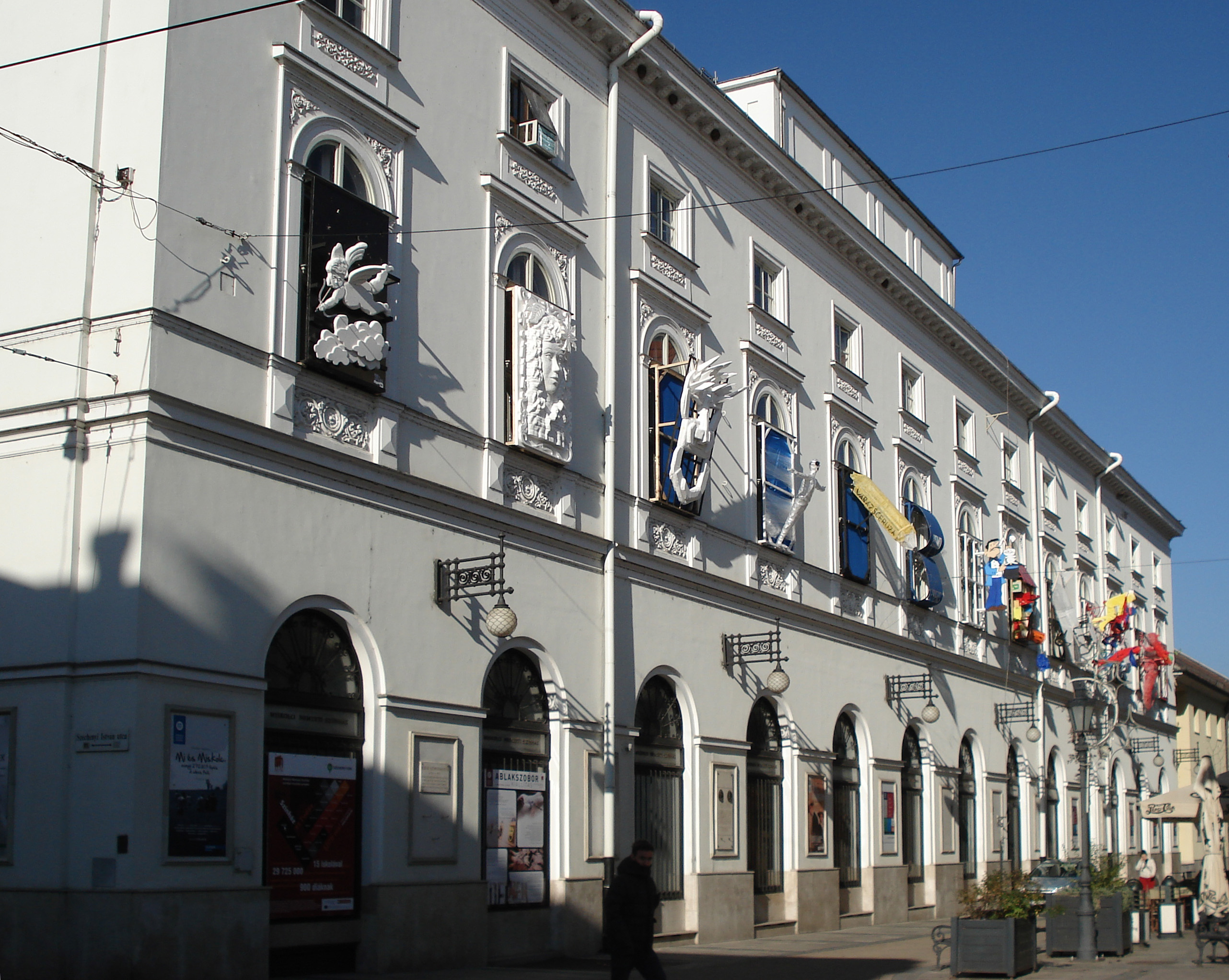 Window sculptures. National Theatre of Miskolc, 2012, Hungary.